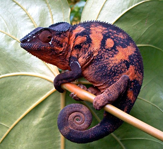 Female (?) chameleon in la Réunion. November 2006